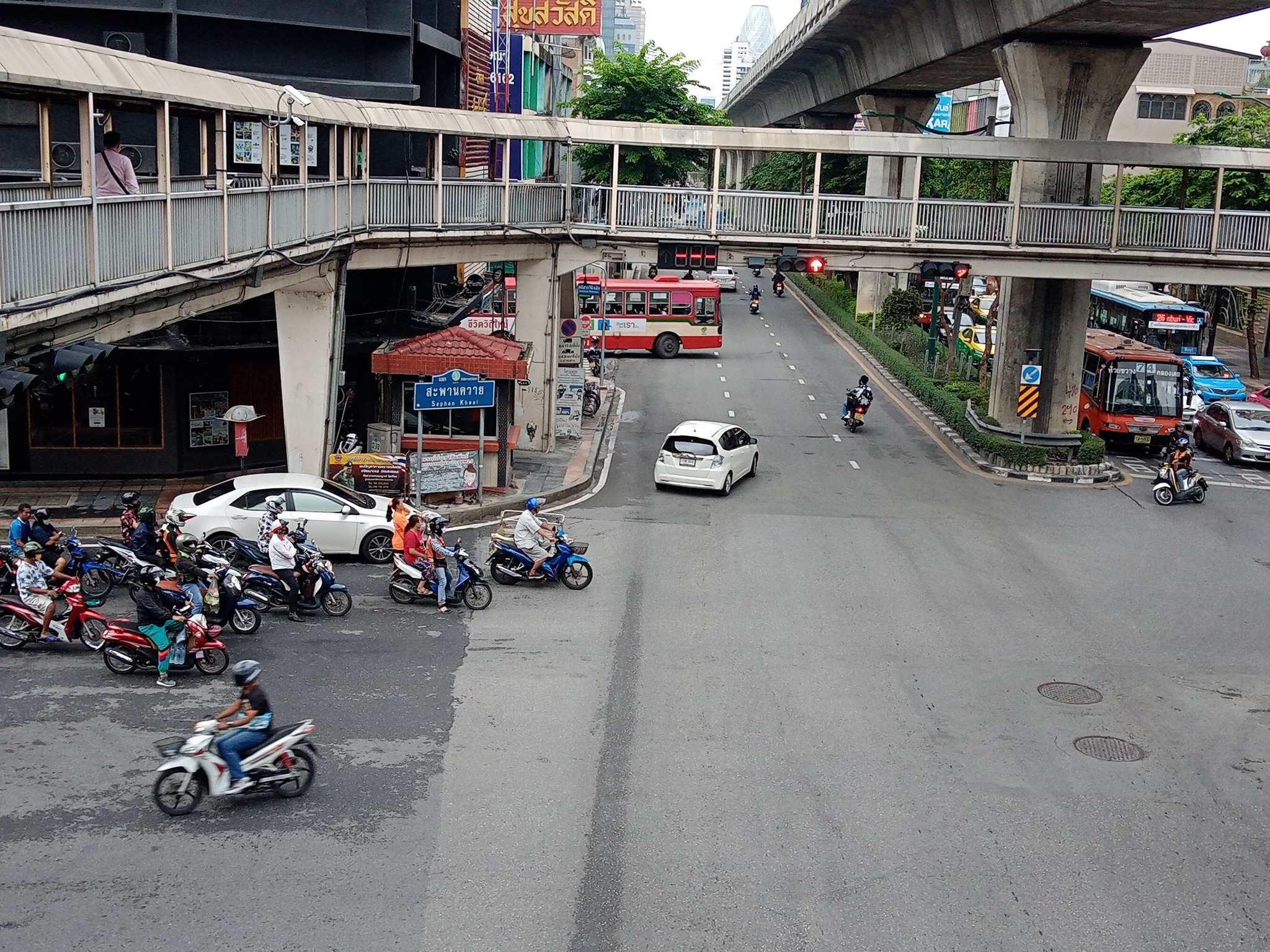 Saphan Khwai Intersection.